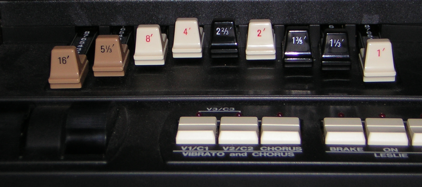 Drawbars of the Hammond XB-1 Organ. This image has been taken by Wikipedia-ce on 2004/12/27 and is public domain. I created it mainly for